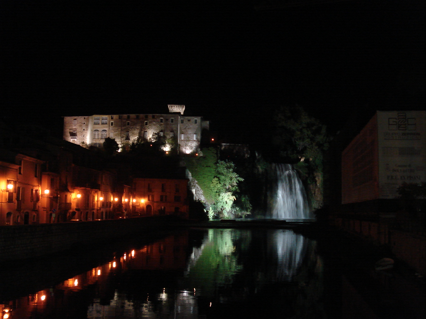 The c- 30 m-high waterfall, Cascata Grande, in Isola del Liri, Italy.